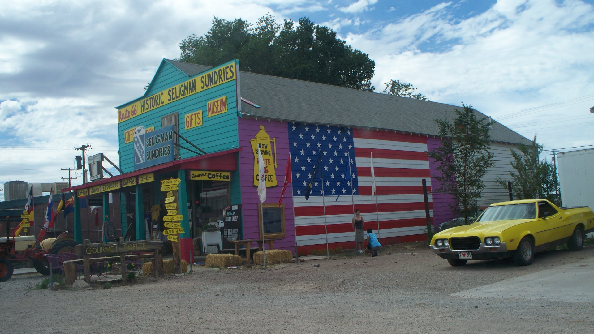 Historic Seligman Sundries building and a 1972 Ford Ranchero along former US Highway 66, Seligman, Arizona USA.